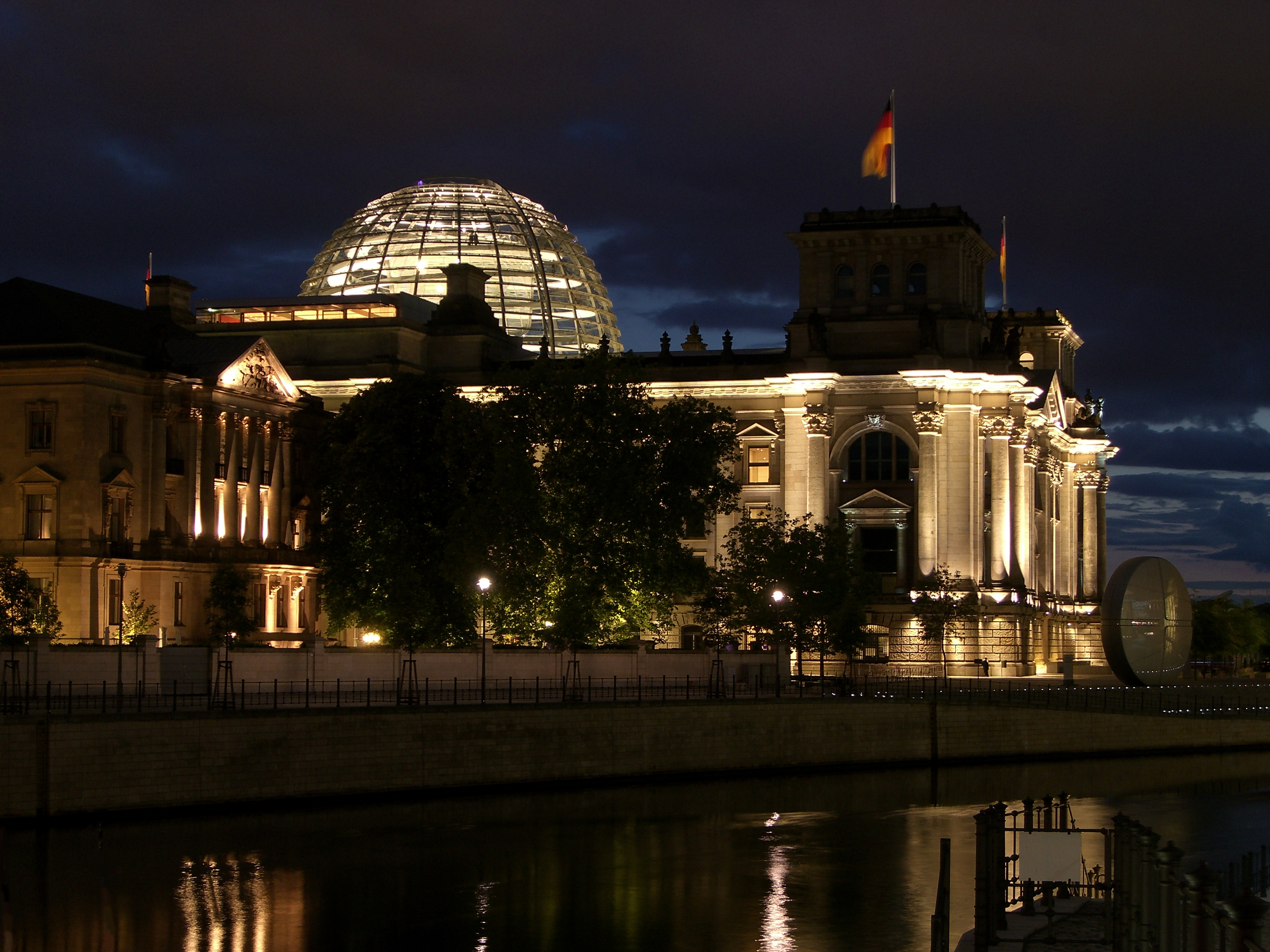 the 'Reichstag' in Berlin, view from the 'Spree'